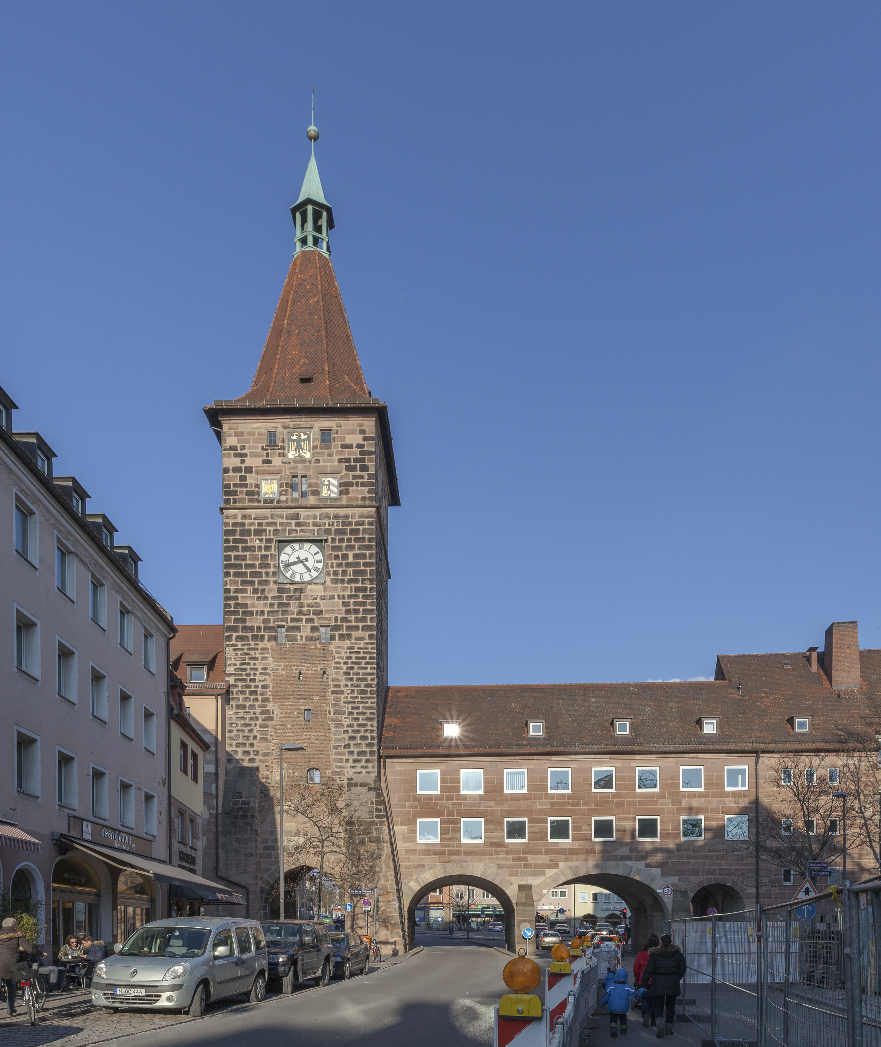 Laufer Schlagtorturm, Nuremberg, Germany